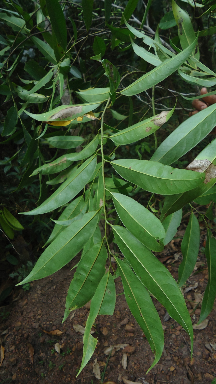 Guatteria australis A.St.-Hil., Annonaceae, Atlantic forest, northeastern Bahia, Brazil